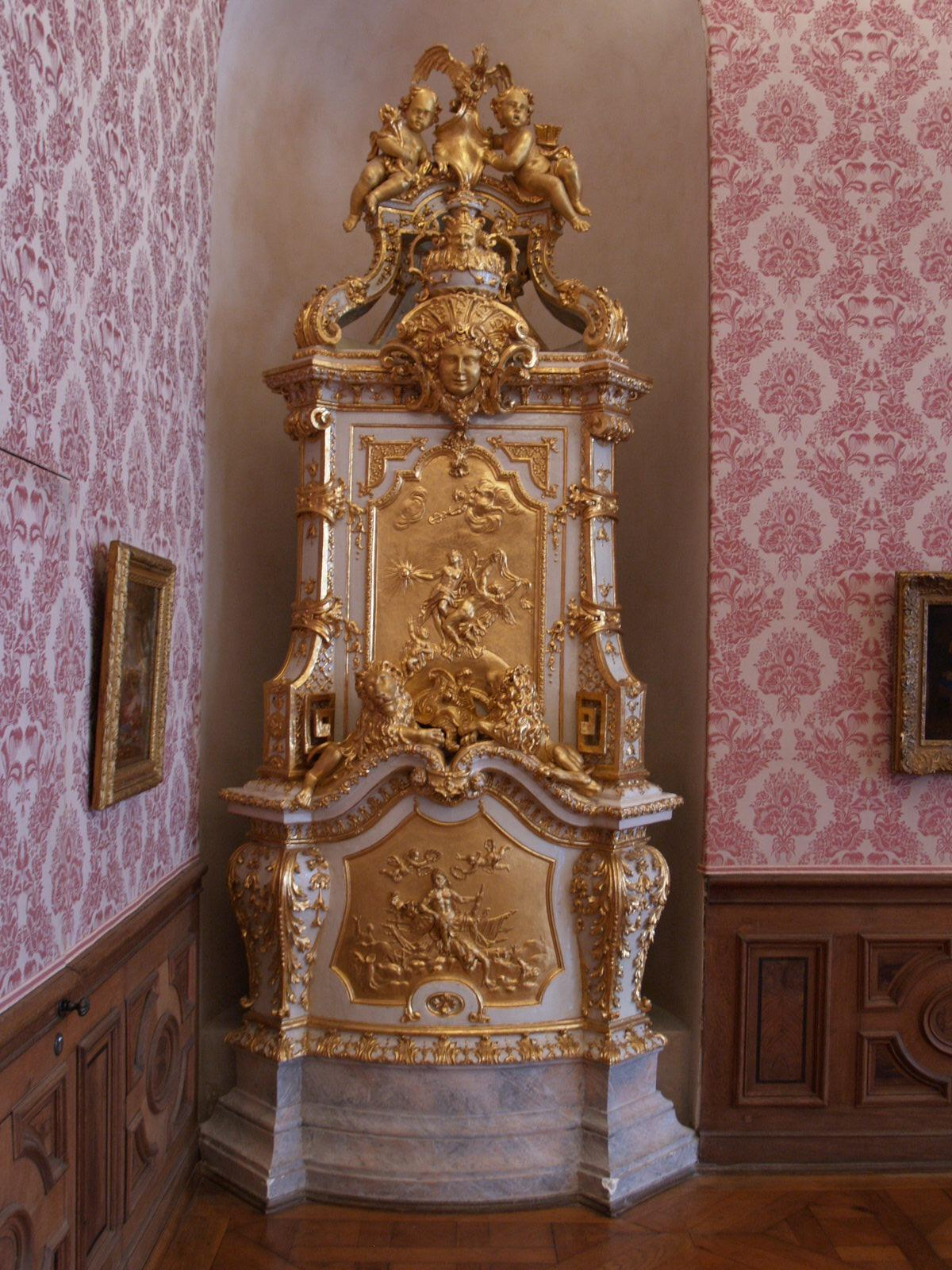 Foto